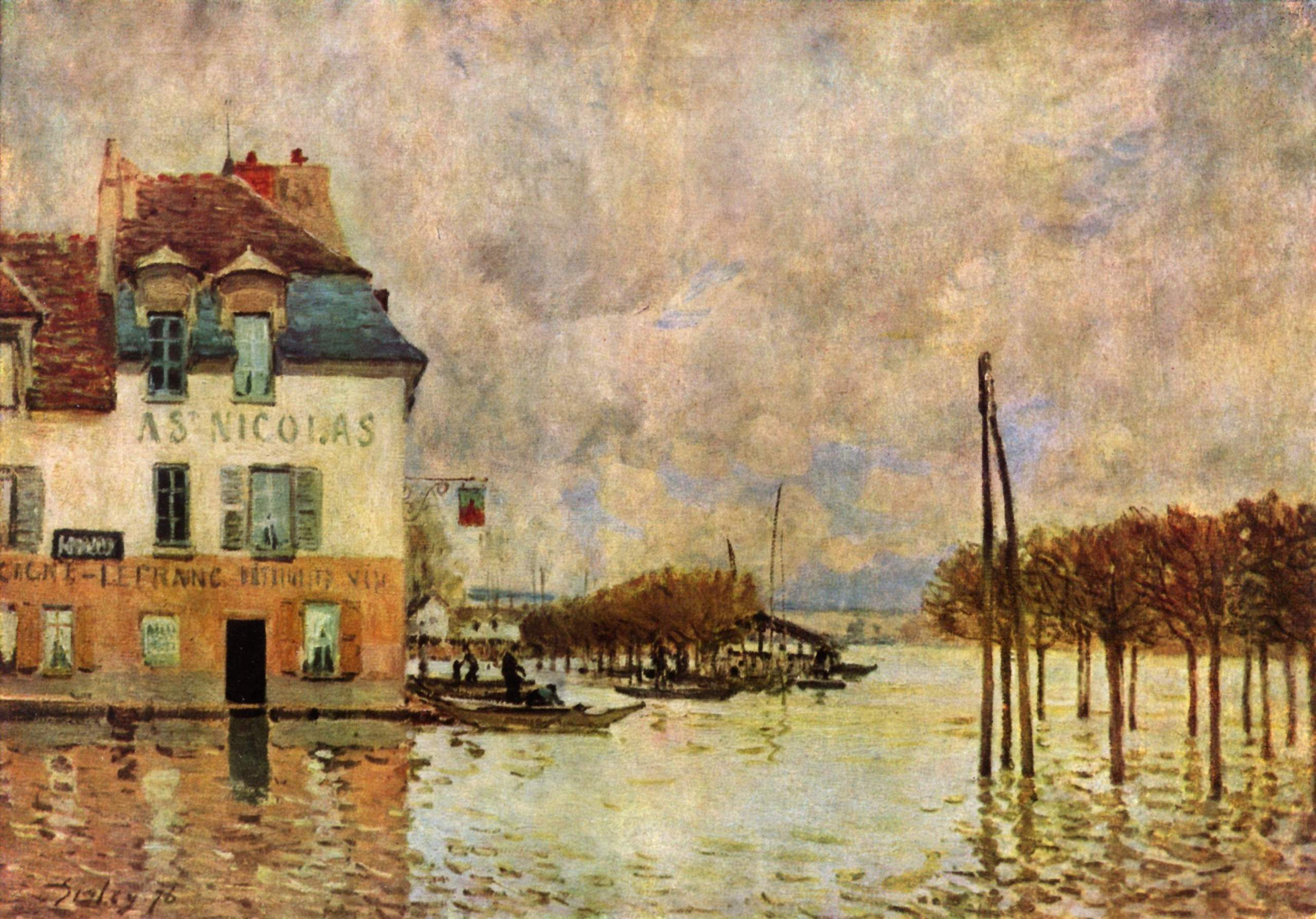 Depicted place: Le Port-Marly